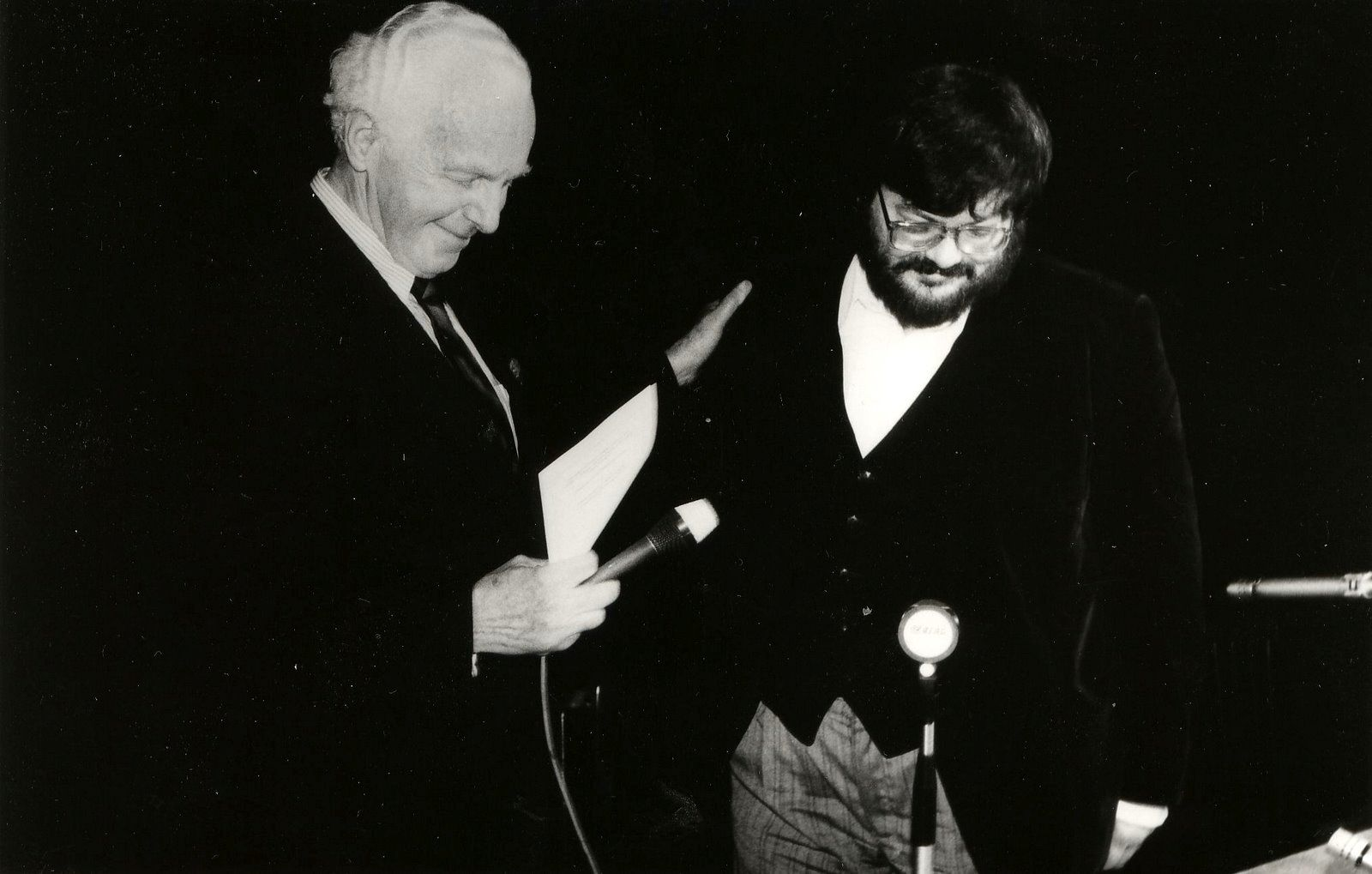 Tom Lantos (Péter Tamás Lantos, 1928-2008) politician of the American Democratic Party of Hungarian origin, member of the US House of Representatives from 1981 until his deathGéza Szőcs (1953-) Kossuth Prize winner and Attila József Prize winner Hungarian Transylvanian poet, politician (right)